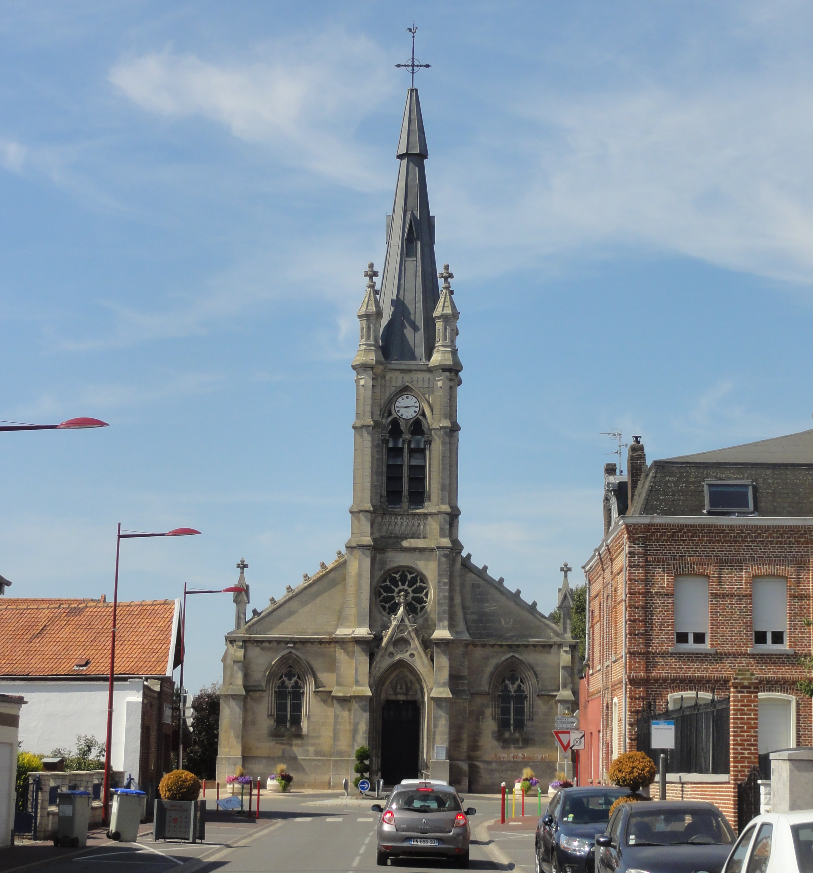 Depicted place: Q41784588